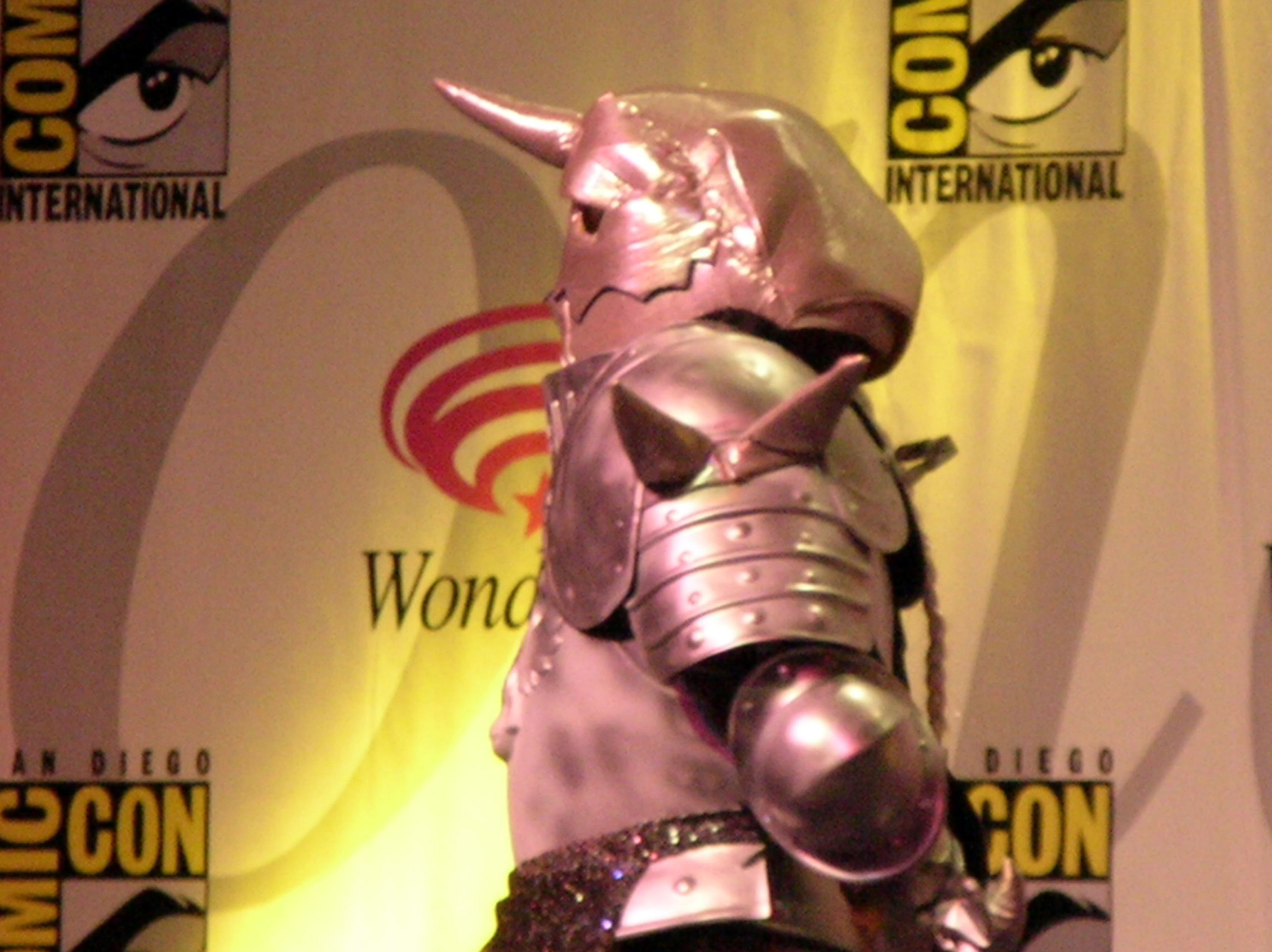 A cosplayer portraying Alphonse Elric from Fullmetal Alchemist at the WonderCon 2010 Masquerade.